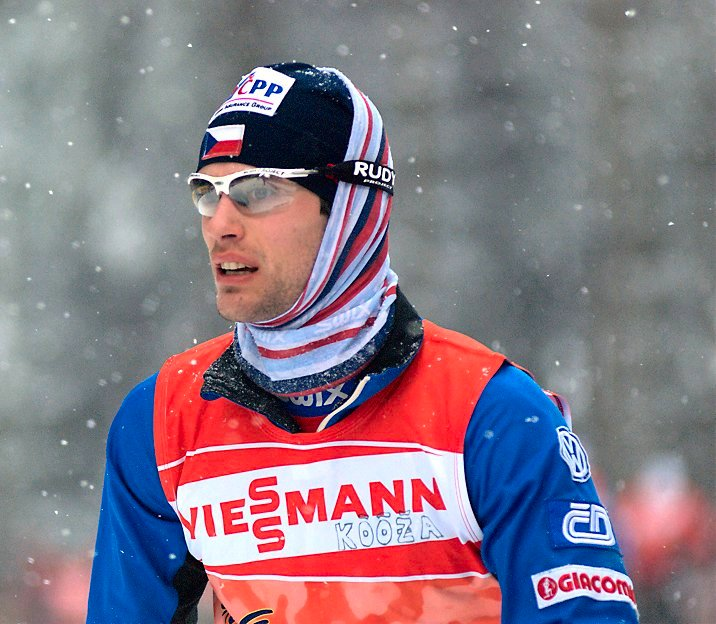 Dušan Kožíšek at the Tour de Ski 2010 in Oberhof